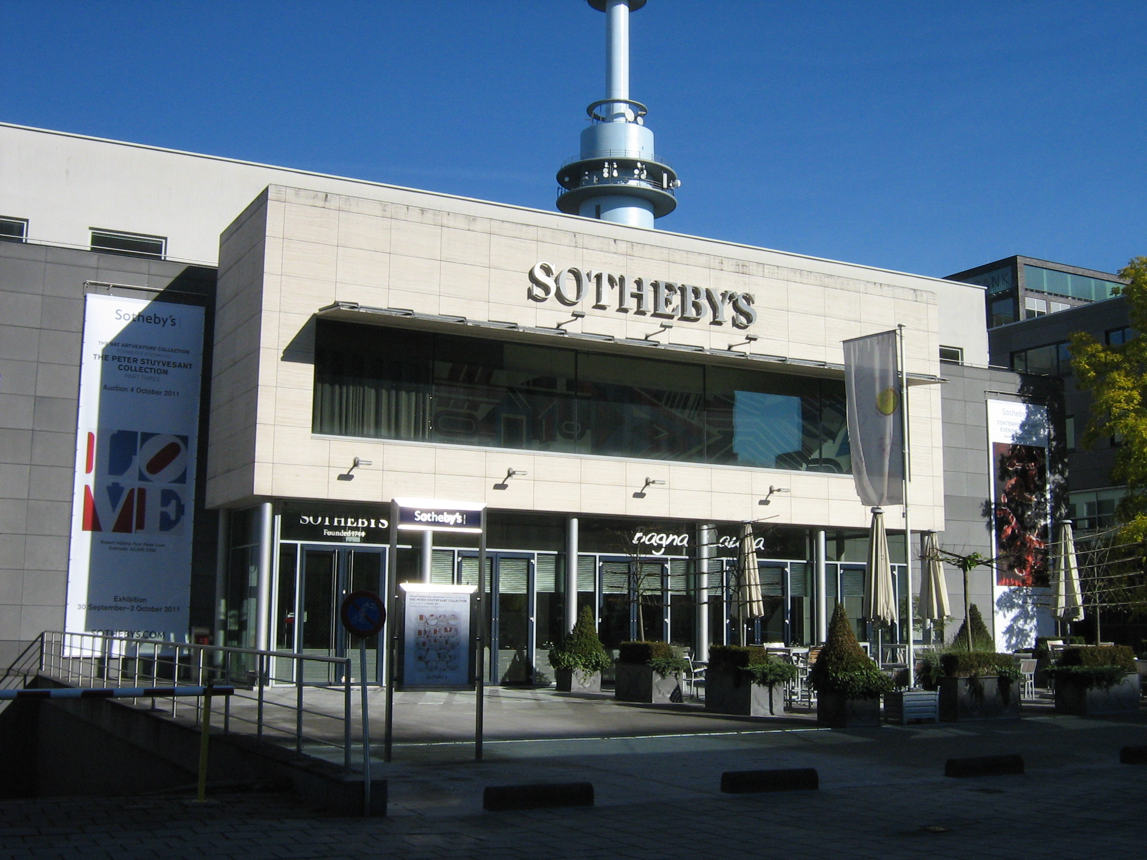 Amsterdam branch of auctioneers Sotheby's, on the former adress, 30 De Boelelaan, Amsterdam, the Netherlands.